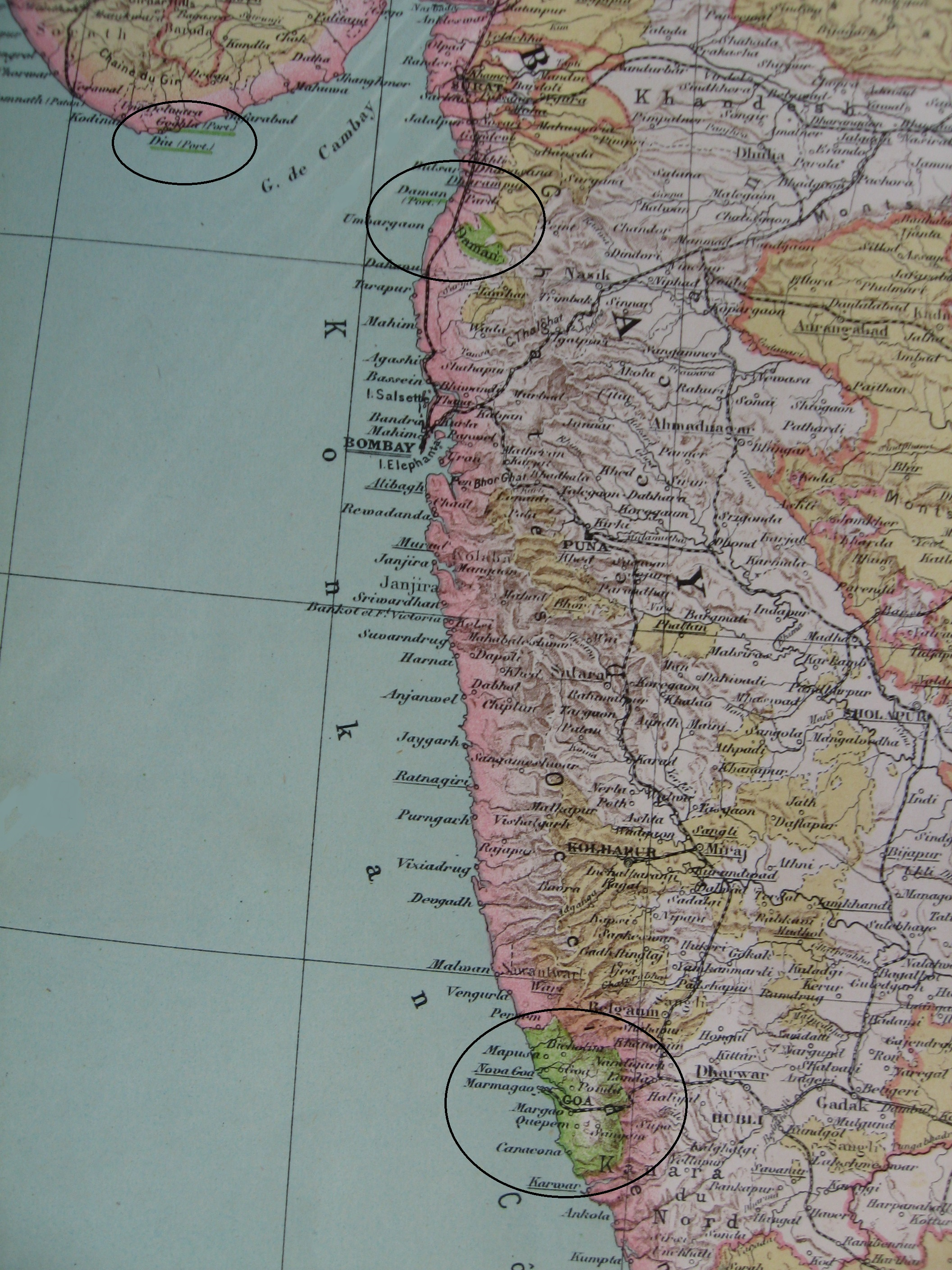 1923 map of India over which the Portuguese possessions have been highlighted. During the last two centuries of its existence, Portuguese India was made of three separate districts: Goa (under which name the whole colony was often called); Daman, which included the port city of Daman and the two inland enclaves of Dadra and Nagar Haveli (indicated simply as "Daman" on the map); and Diu. Cropped from a map of India included in the Atlas universel de géographie published by Hachette in 1923.